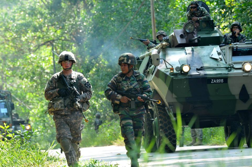 PV2 Darrell Enger, 2nd Platoon, C. Company, 2nd Stryker Brigade Combat Team, 2nd Infantry Division, conducts a dismounted patrol with Malaysian Army Soldiers during Counter IED training at KDP, Malaysia, Sep. 20, during bilateral exercise Keris Strike 14. KS14 contributes to a regional peacekeeping capability in Asia, which in turn fosters important worldwide peacekeeping operations. (Photo by U.S. Army Sgt.1st Class Adora Gonzalez, 25th ID, Public Affairs)